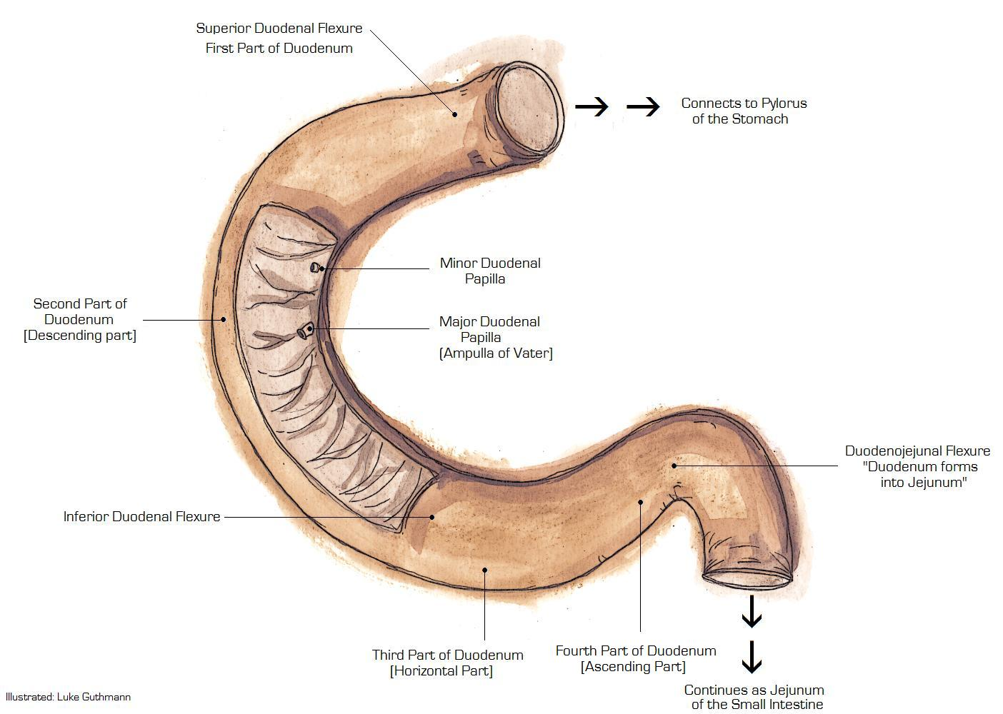 Anatomical illustration using traditional media to display the duodenum.